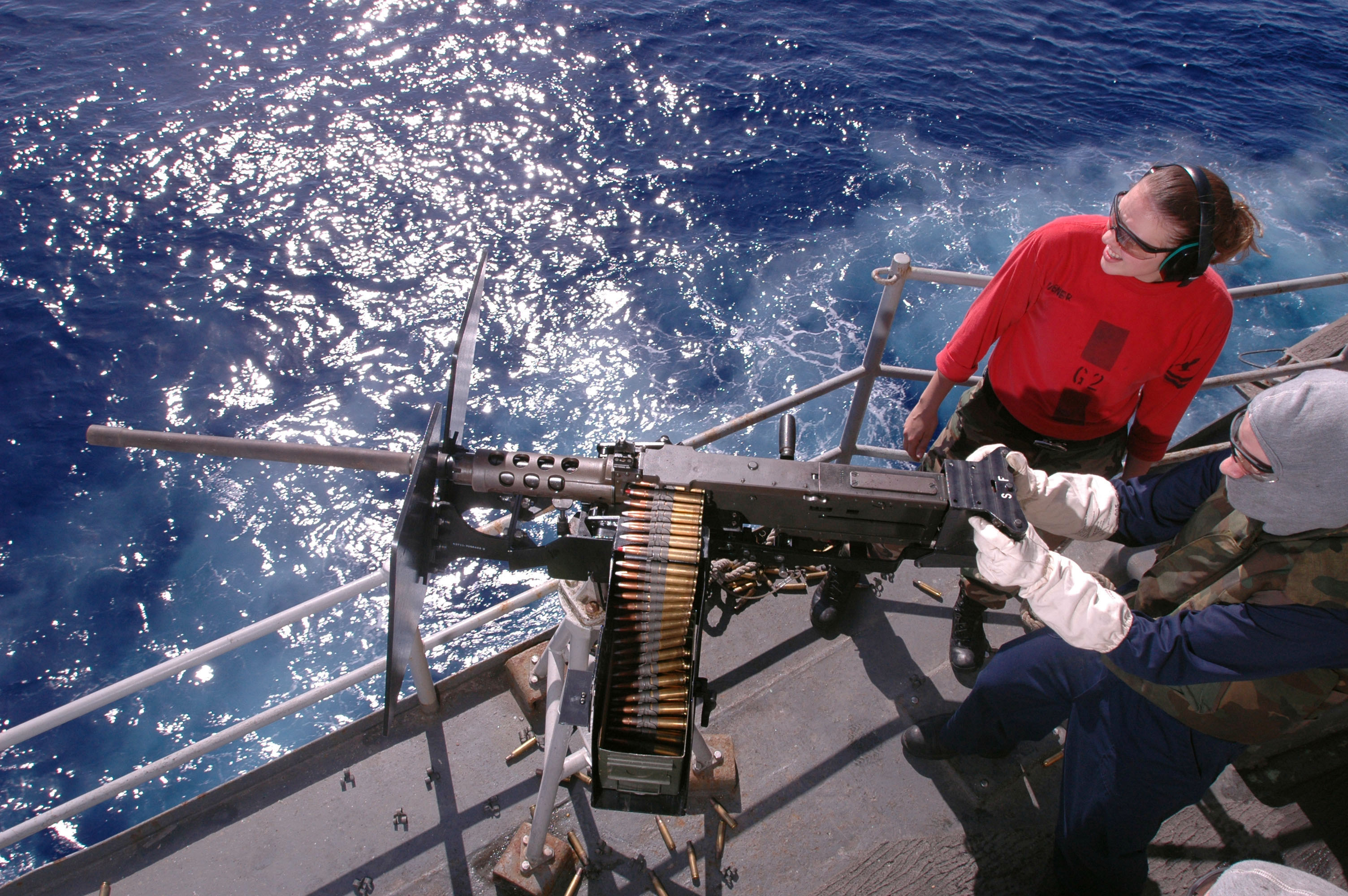 060612-N-3946H-027 Pacific Ocean (June 12, 2006) - Gunner's Mate 2nd Class Teresa Keener instructs a Sailor assigned to the Weapons Department on the operation of a .50-caliber machine gun, during a live fire exercise on the fantail aboard the conventionally-powered aircraft carrier USS Kitty Hawk (CV 63). Currently under way in the 7th Fleet area of responsibility (AOR), Kitty Hawk demonstrates power projection and sea control as the U.S. Navy's only permanently forward-deployed aircraft carrier, operating from Yokosuka, Japan. U.S. Navy photo by Photographer's Mate Airman Patrick L. Heil (RELEASED)